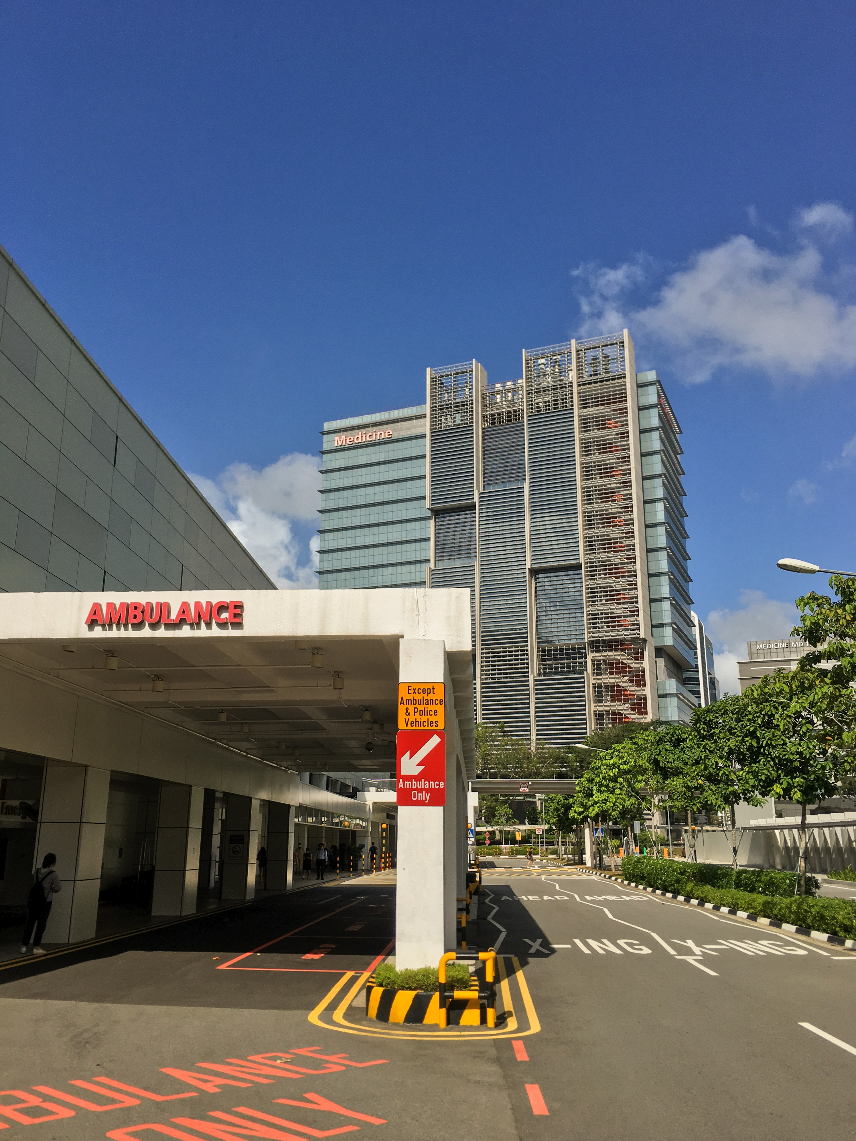 The ambulance lane at the National University Hospital, with the MD6 building of the National University of Singapore in the background.